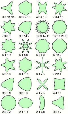 Superformula samples. a = b = 1; m, n1, n2 and n3 are shown in picture.